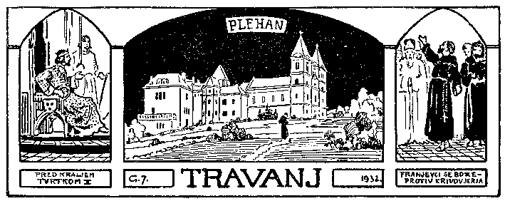 Croatian Catholic calendar in Bosnia and Herzegovina, 1930. Plehan